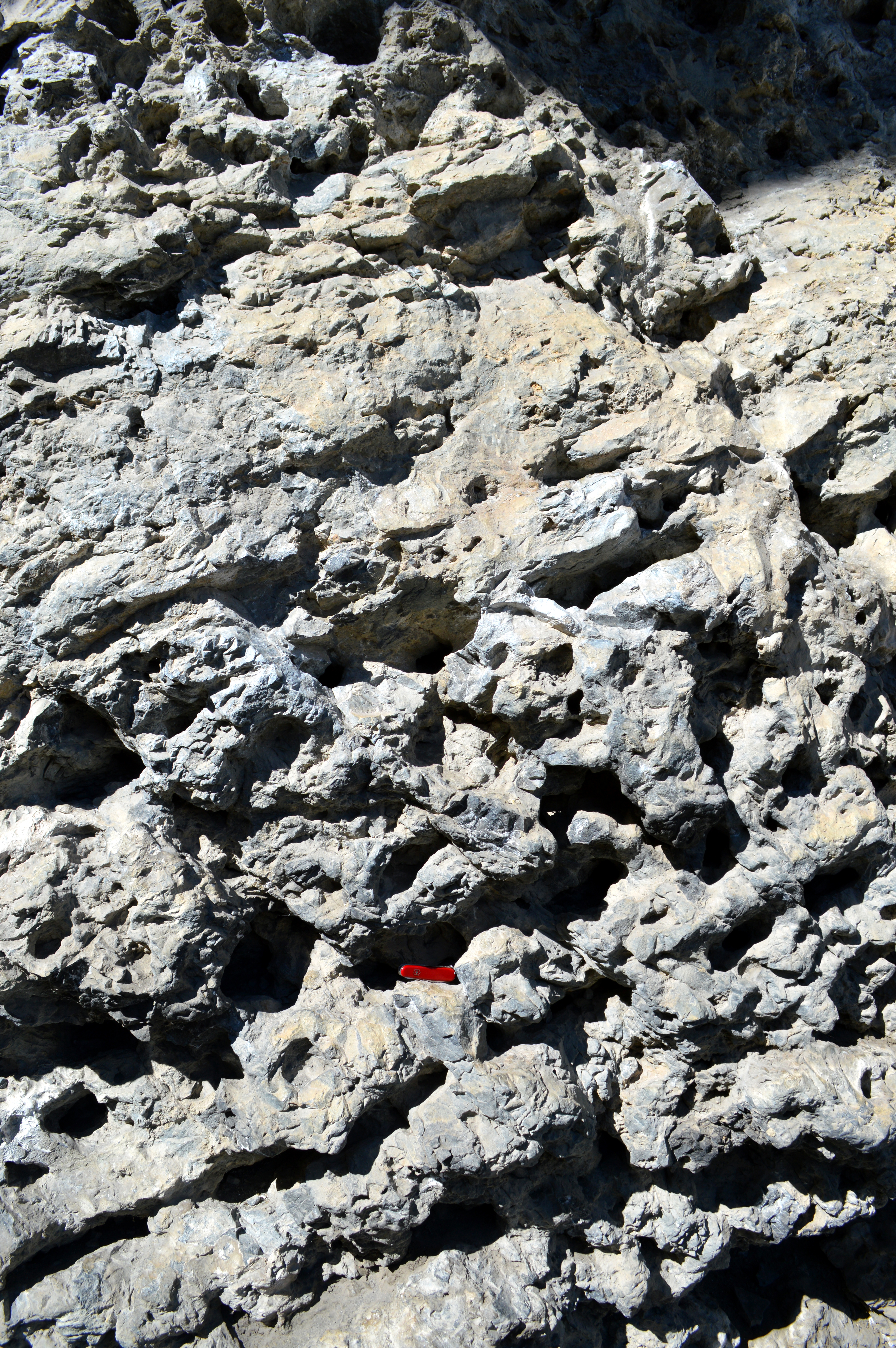 Cairn Formation dolostone (Late Devonian) with bulbous stromatoporoids at Grassi Lakes, near Canmore, Alberta.